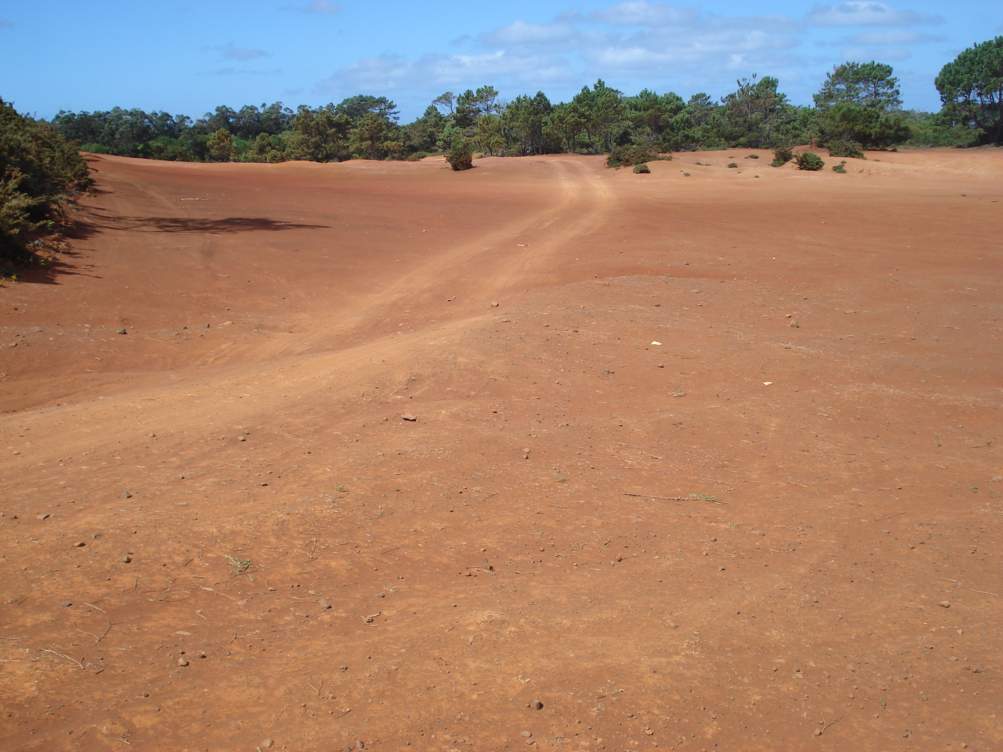 The red desert of Barreiro da Faneca, civil parish of São Pedro, municipality of Vila do Porto (Azores), Portugal